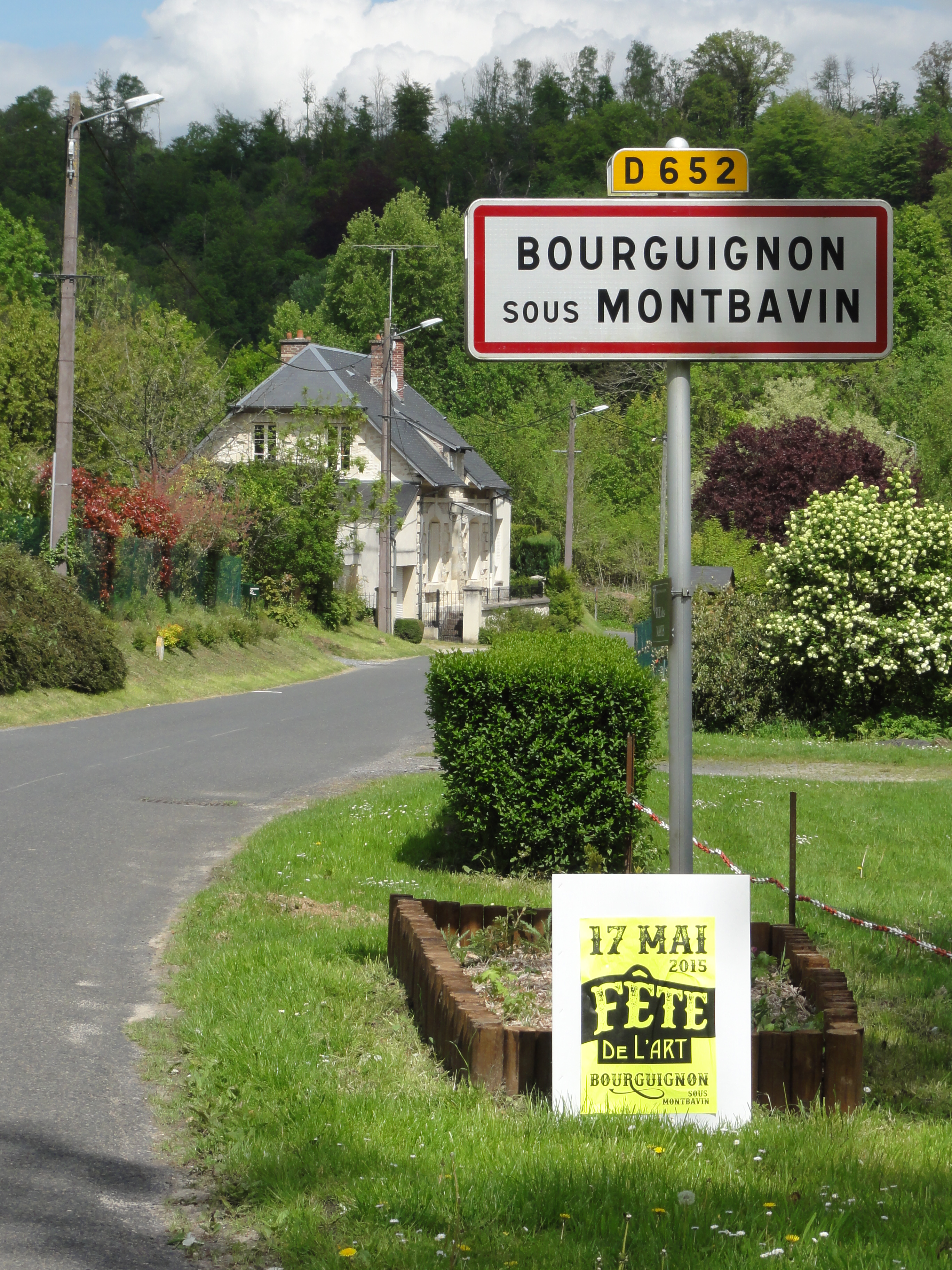 Bourguignon-sous-Montbavin (Aisne) city limit sign